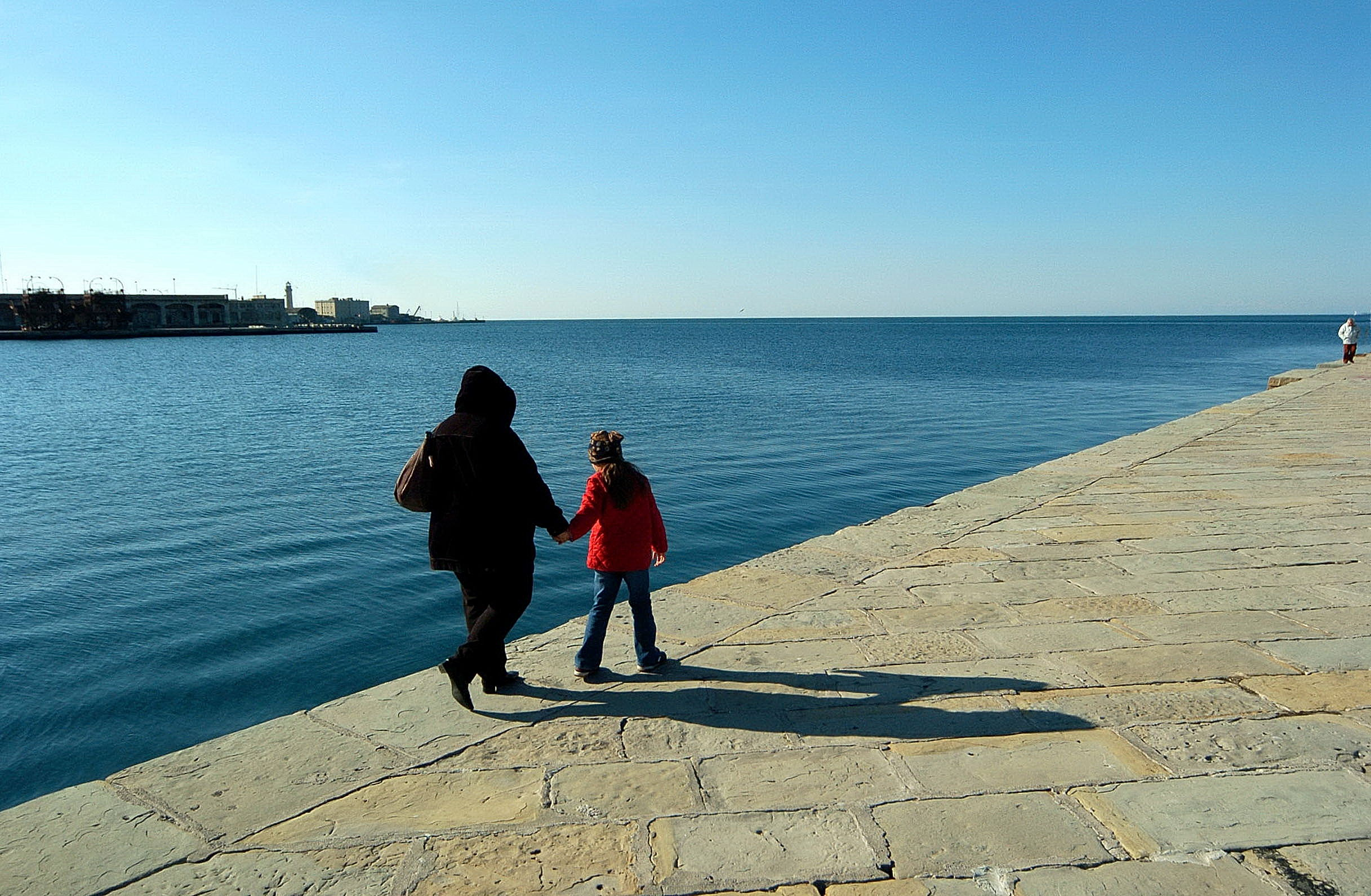 Promenade on the “Molo Audace” in the port of Trieste, Italy